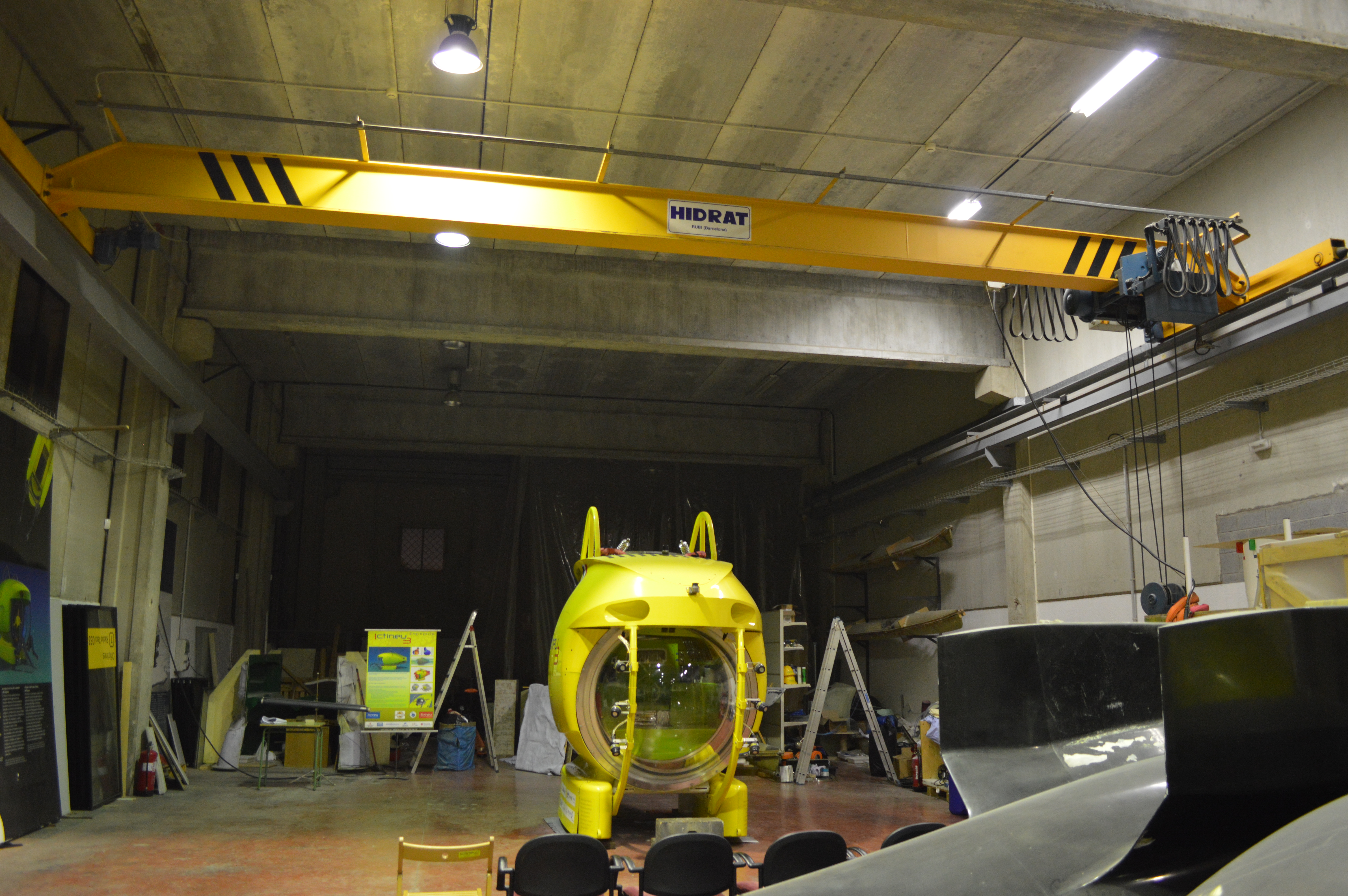 Photo of the scientific submarine Ictineu 3 inside a warehouse in Sant Feliu de Llobregat (Catalonia) under an overhead crane or bridge crane.